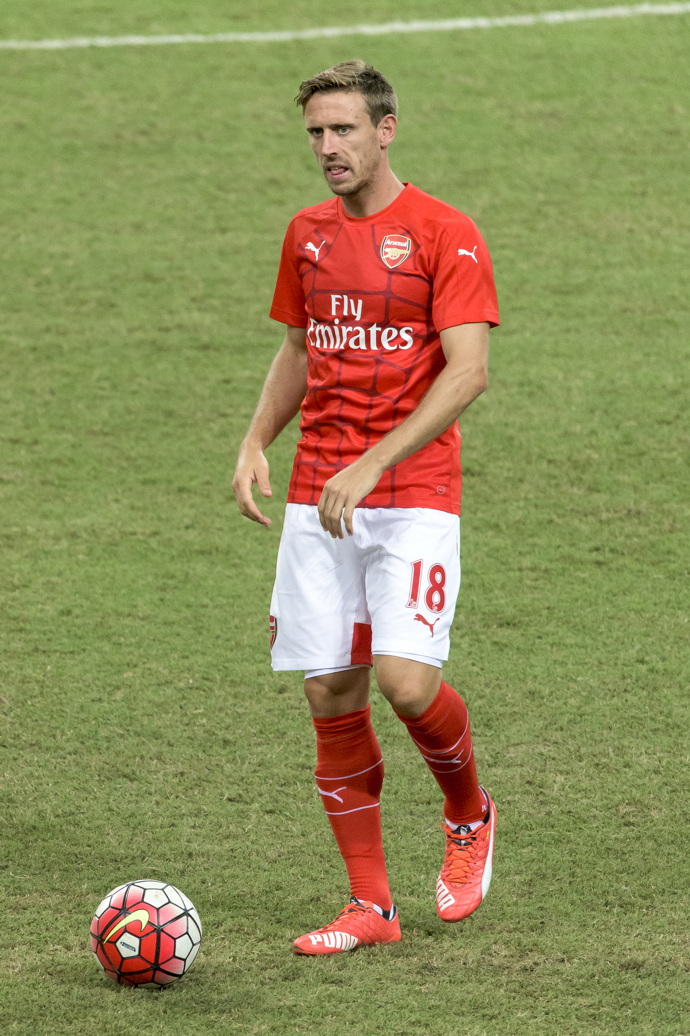 nacho monreal arsenal 2015 singapore barclays asia trophy